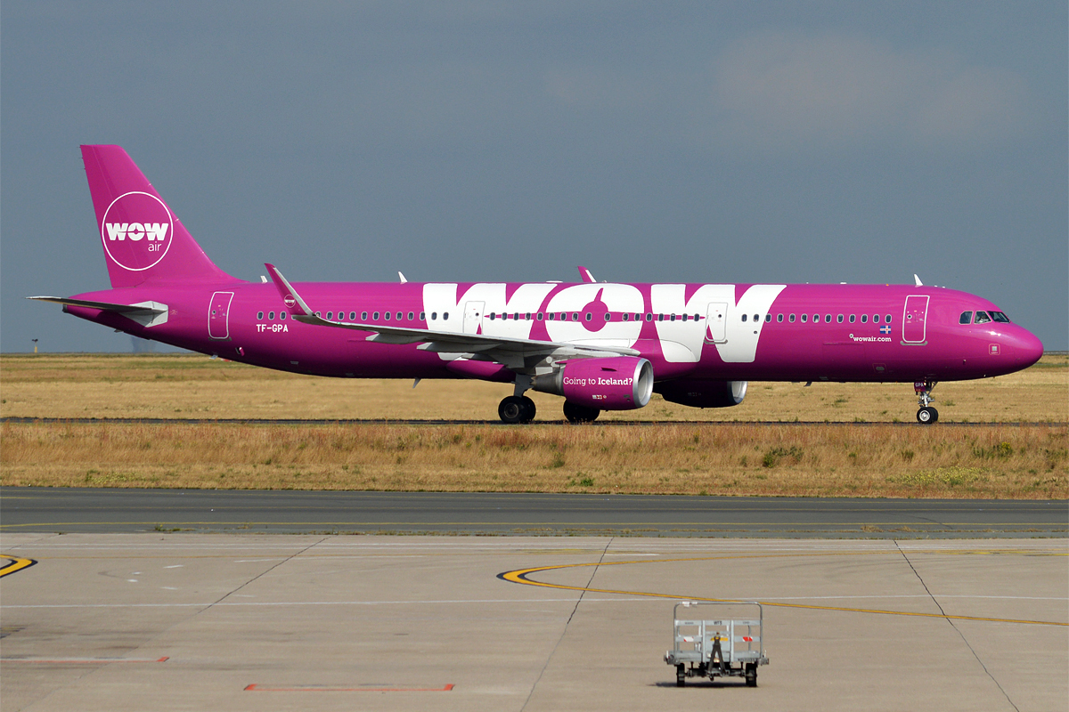 WOW air, TF-GPA, Airbus A321-211